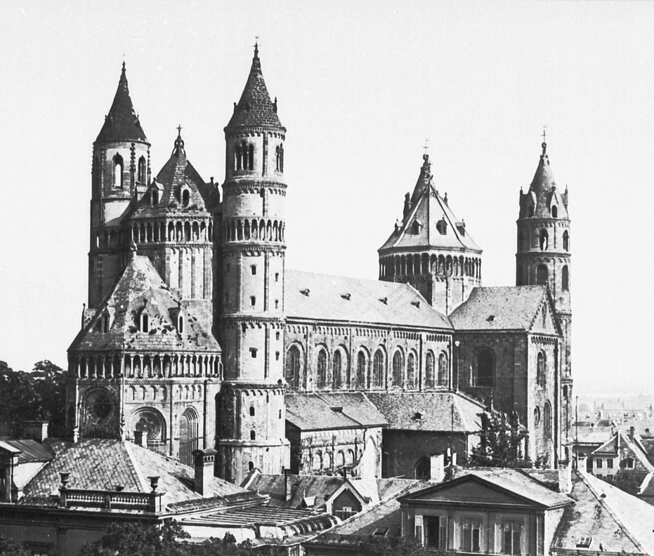 en: Cathedral of Worms, from South-West, before 1901 de: Der Wormser Dom von Südwesten, vor 1901